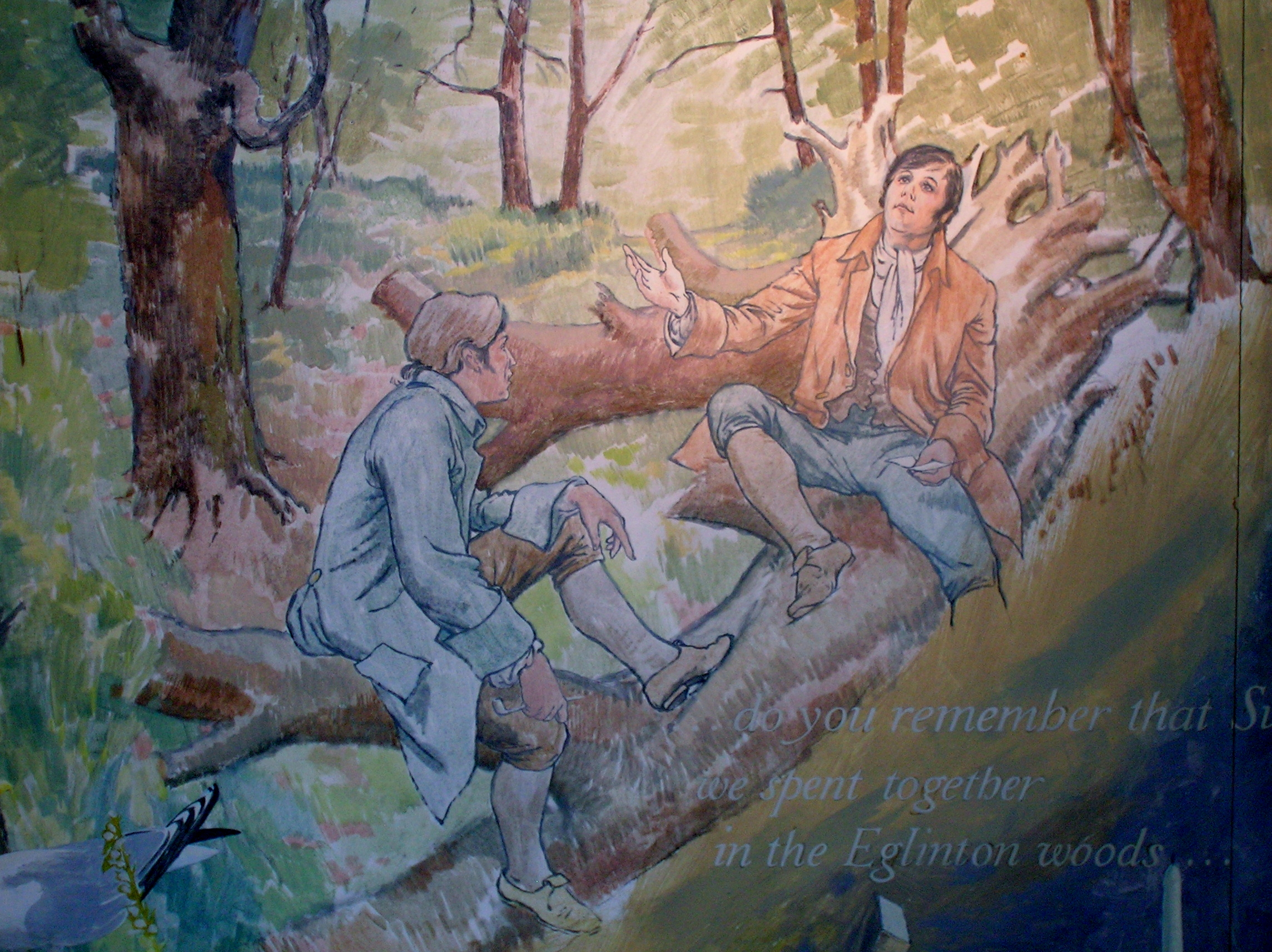 Robert Burns and Captain Richard Brown in Eglinton Woods, Irvine Burns Club, North Ayrshire, Scotland.